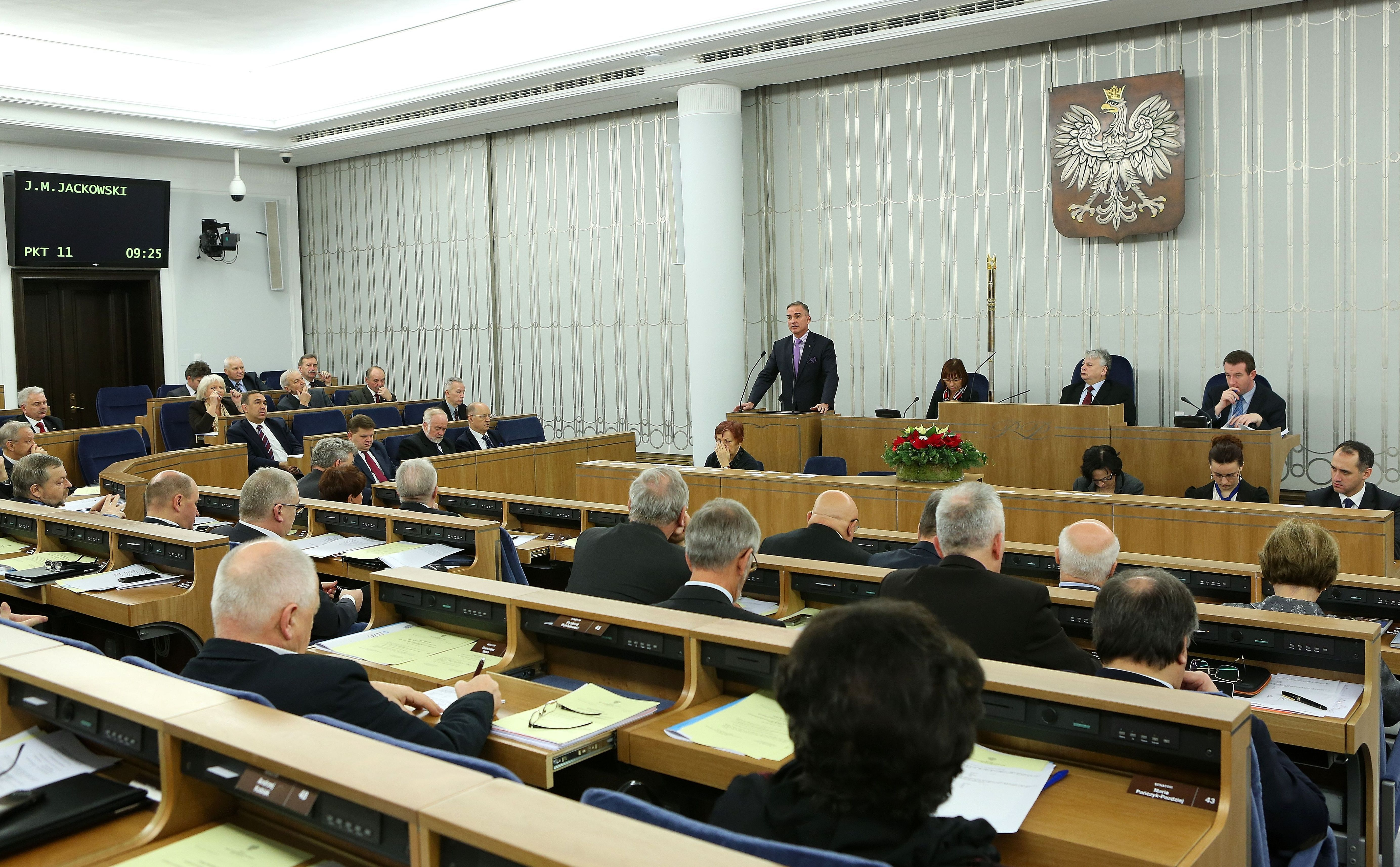 Senator Jan Maria Jackowski speaking during 45th sitting of the Polish Senate